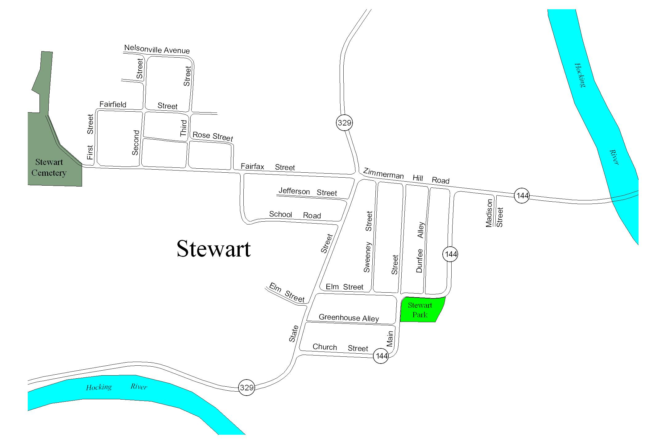 Political map of Stewart, an unincorporated community in Rome Township, Athens County, Ohio, United States of America. Created with ArcView GIS 3.3.